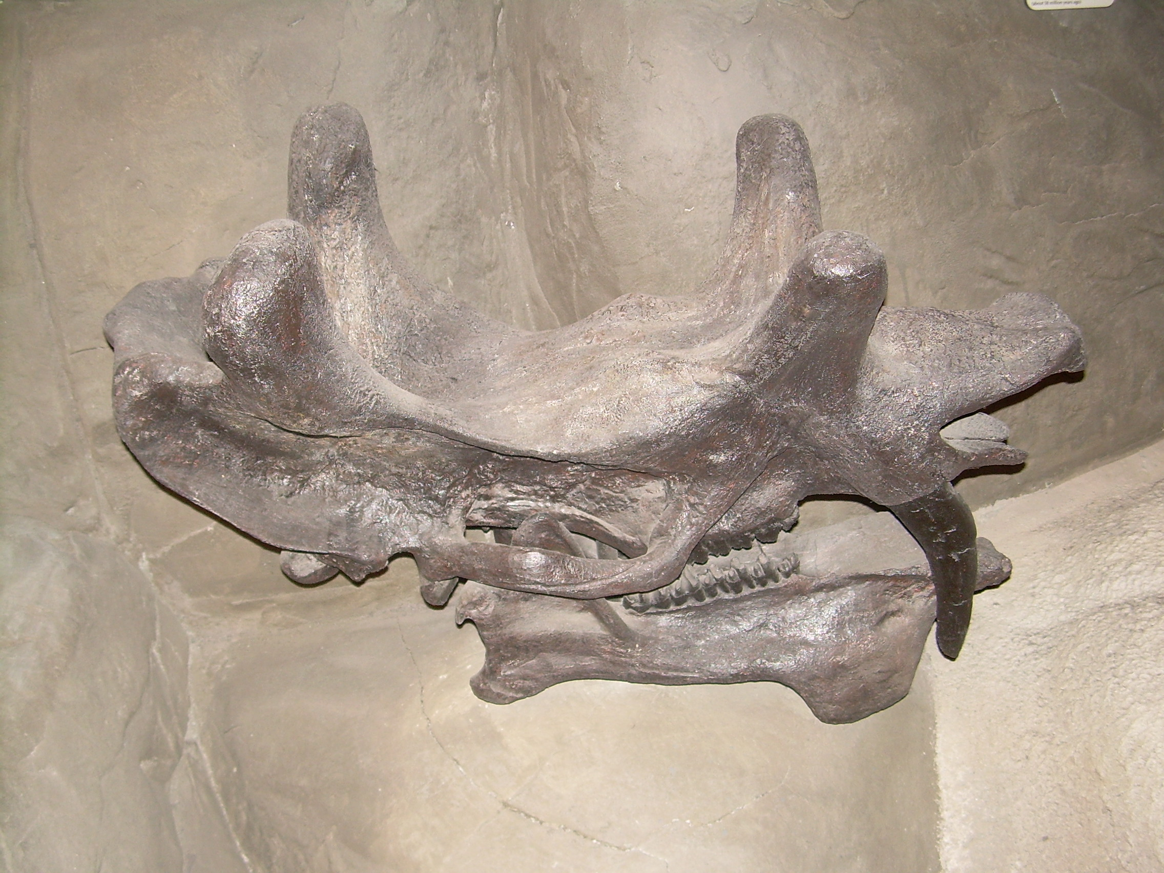 Photograph of a cast of a fossil Uintatherium anceps skull taken at the North American Museum of Ancient Life.